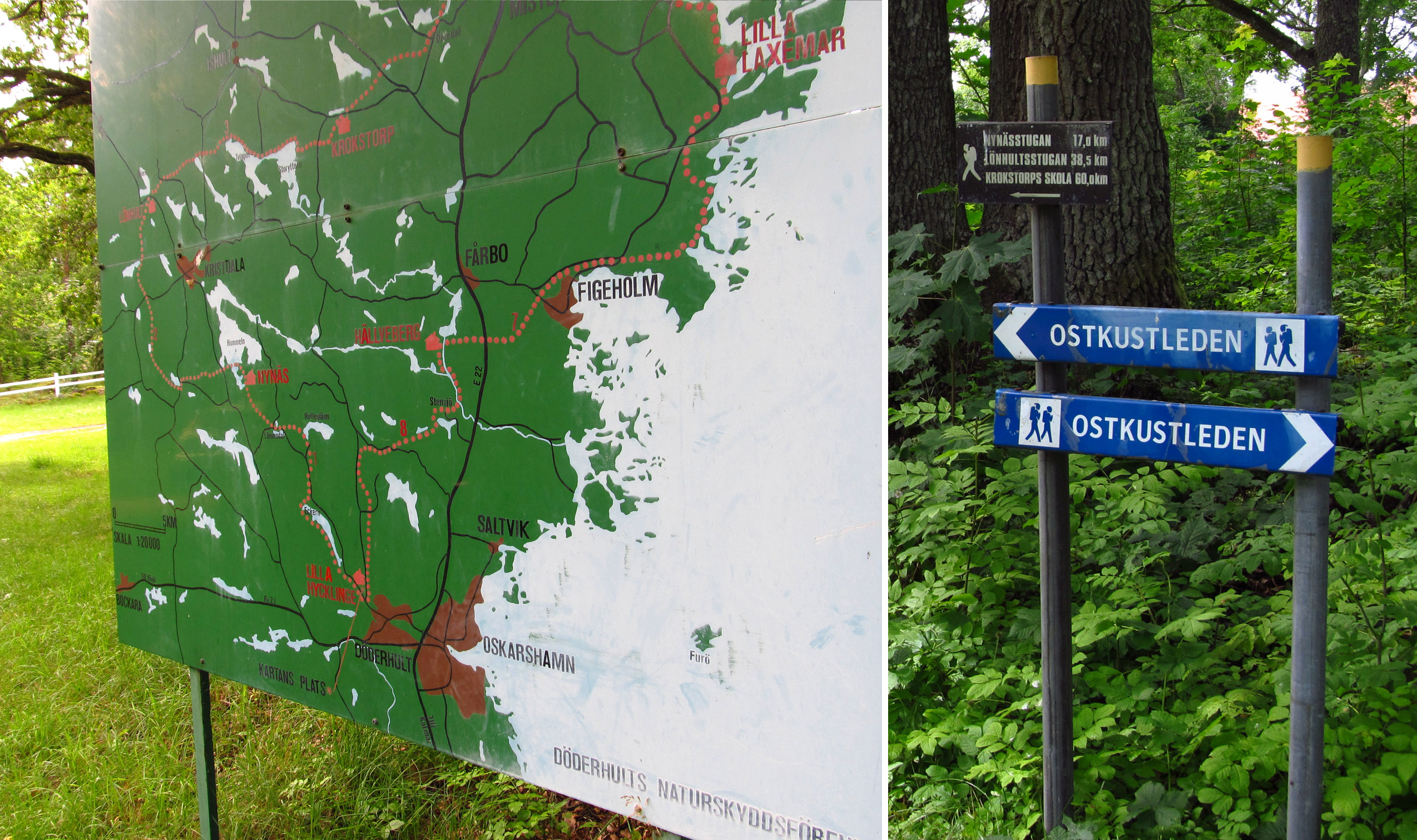 Ostkustleden, a hiking trail outside Oskarshamn, Sweden.